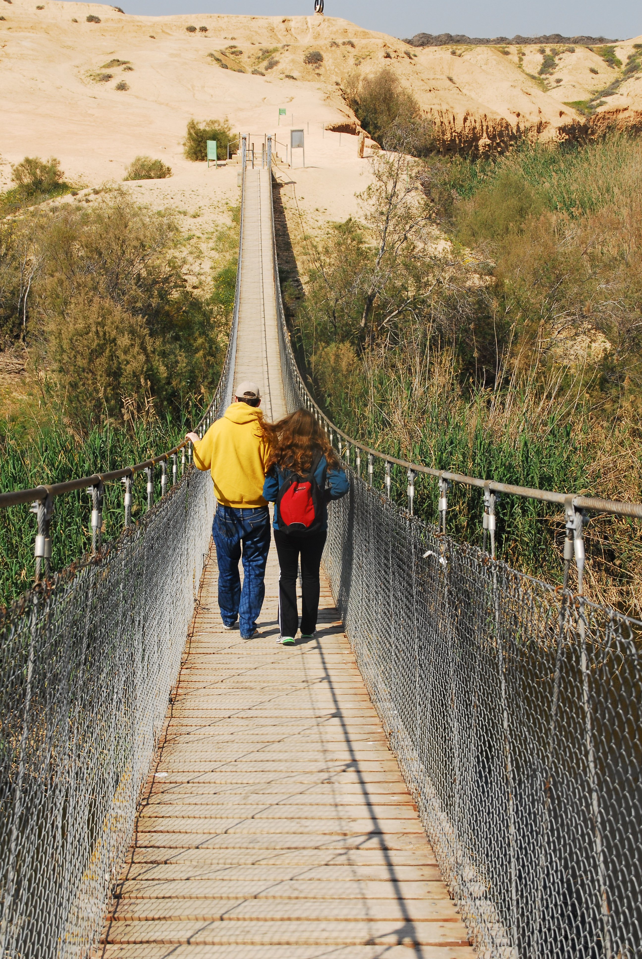 Geography of Israel, Suspension bridge over the Besor Stream.